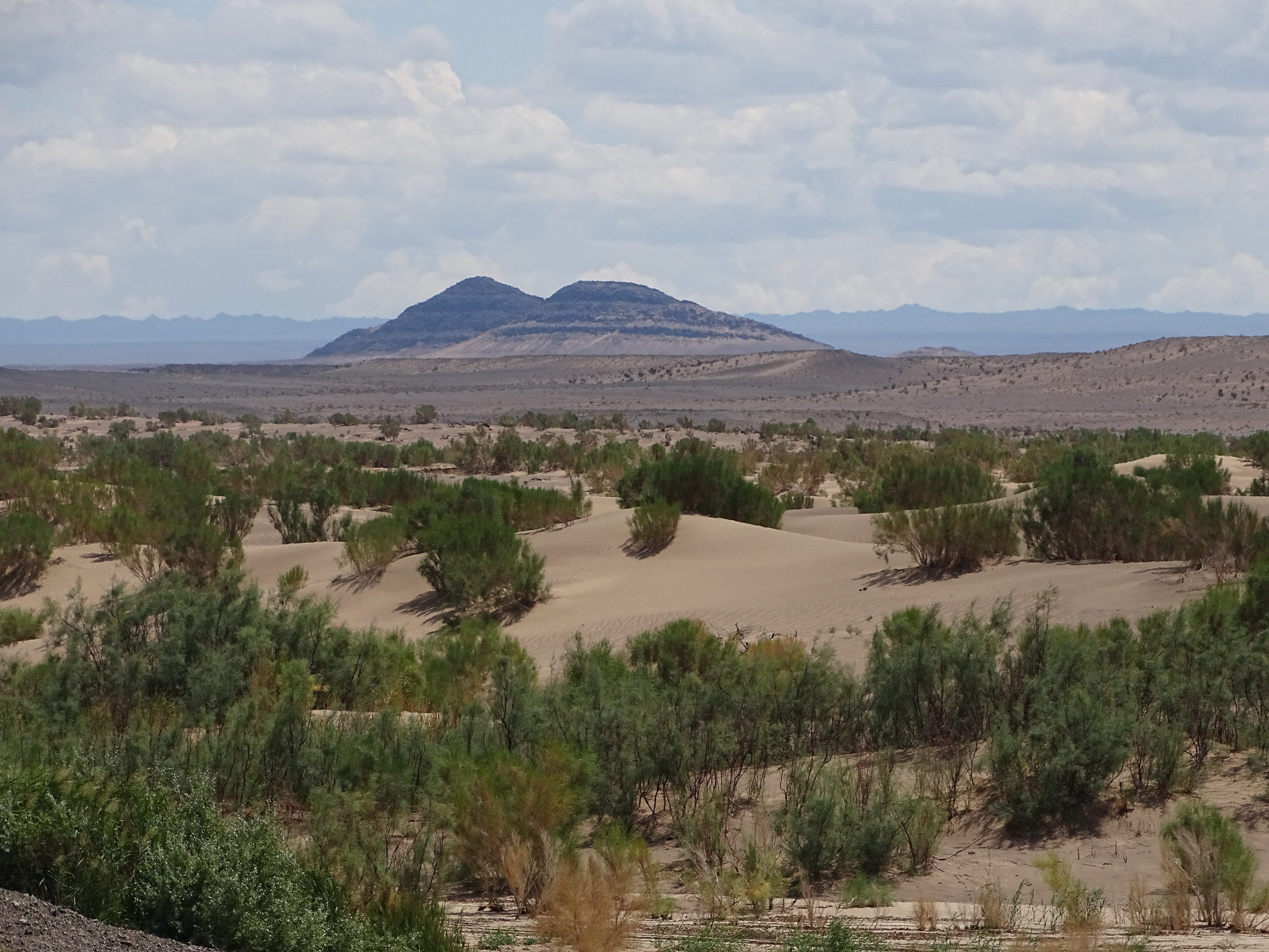 National Park Gobi Gurvansaikhan - An oasis of Zulganai